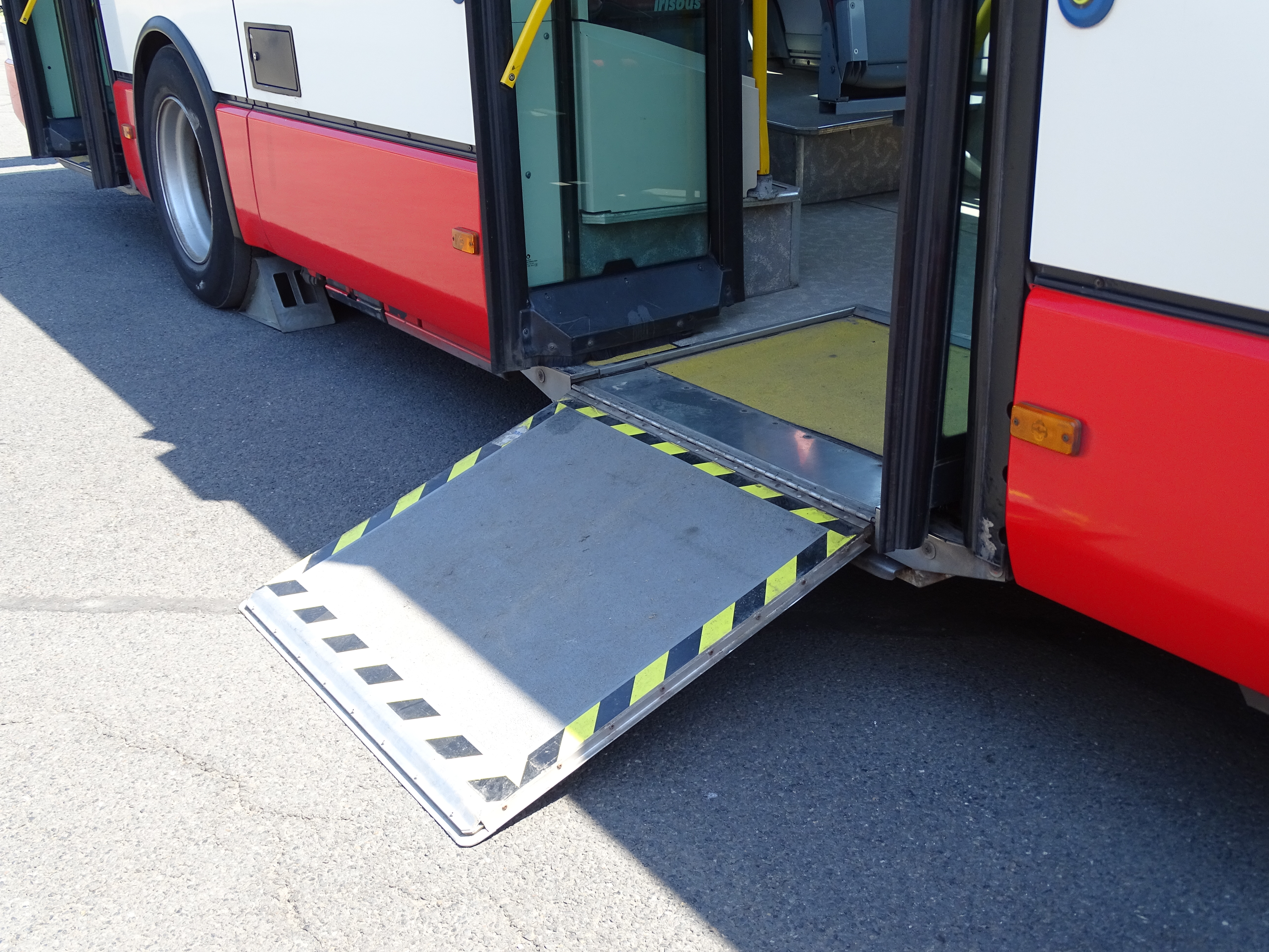 Prague-Michle, Czech Republic. Nad Vršovskou horou 80/1a, open doors day of the bus garage. Irisbus Citelis 12M.